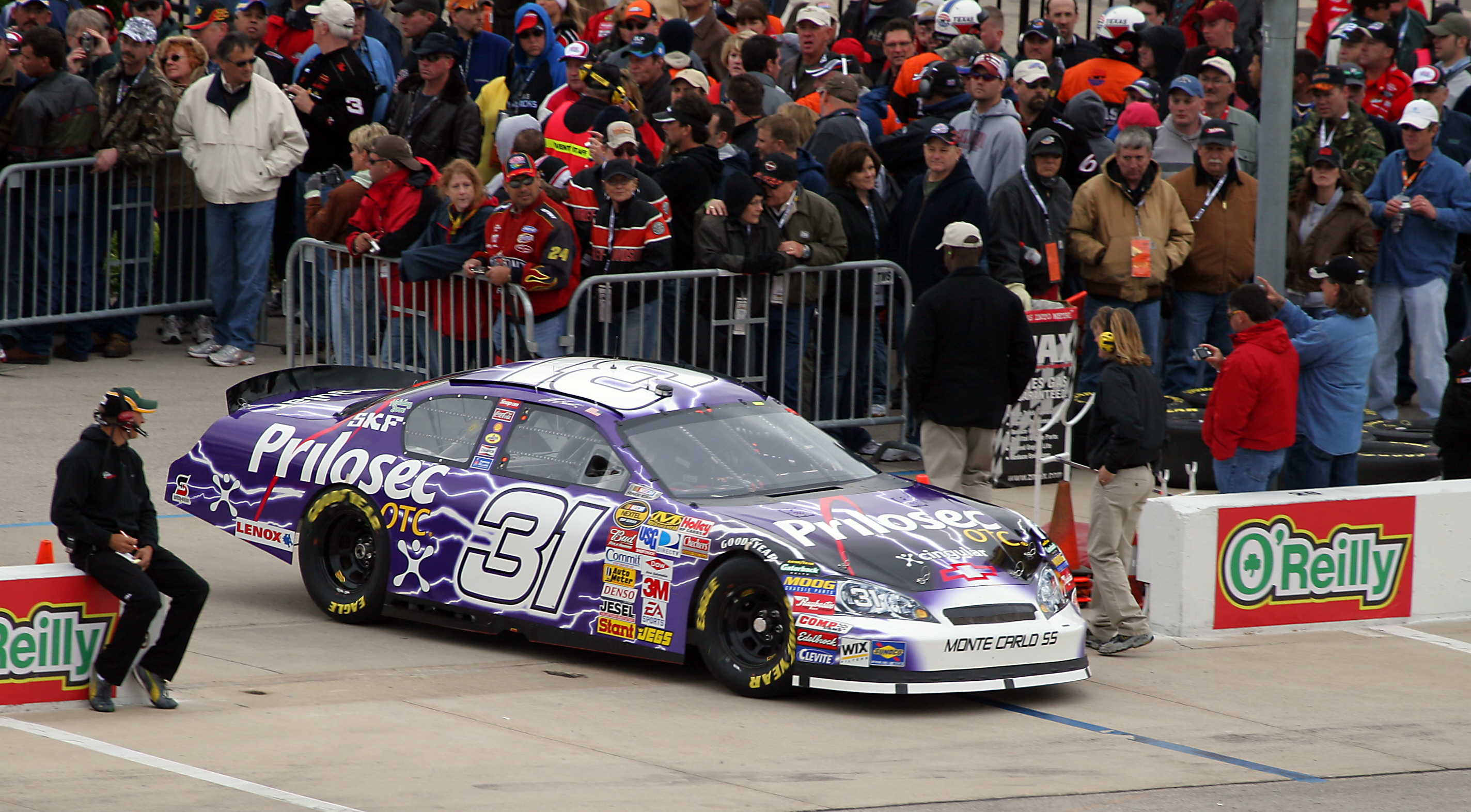 NASCAR driver Jeff Burton in the pits during his 2007 win at Texas Motor Speedway